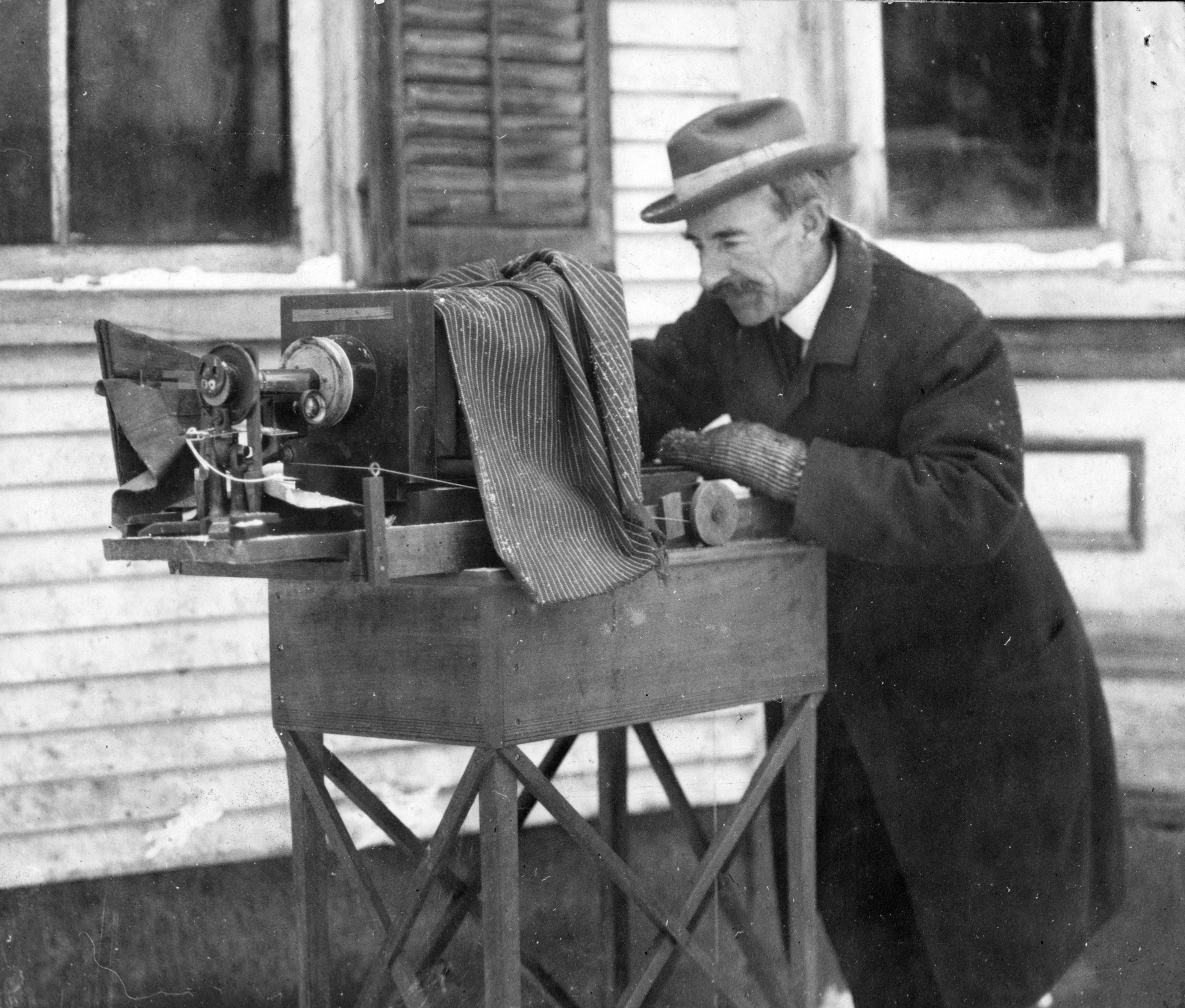 Wilson Bentley photographing snowflakes on his farm in Vermont.